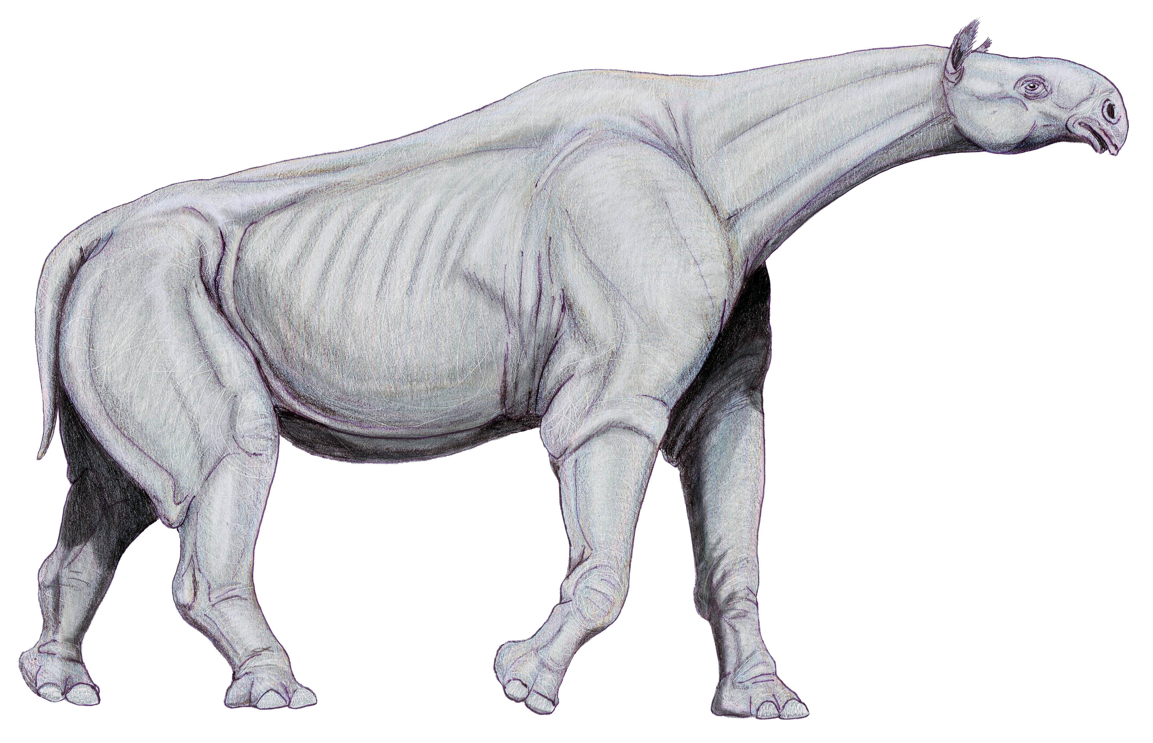 Paraceratherium transouralicum (formerly Indricotherium), based on new skeletal reconstruction.